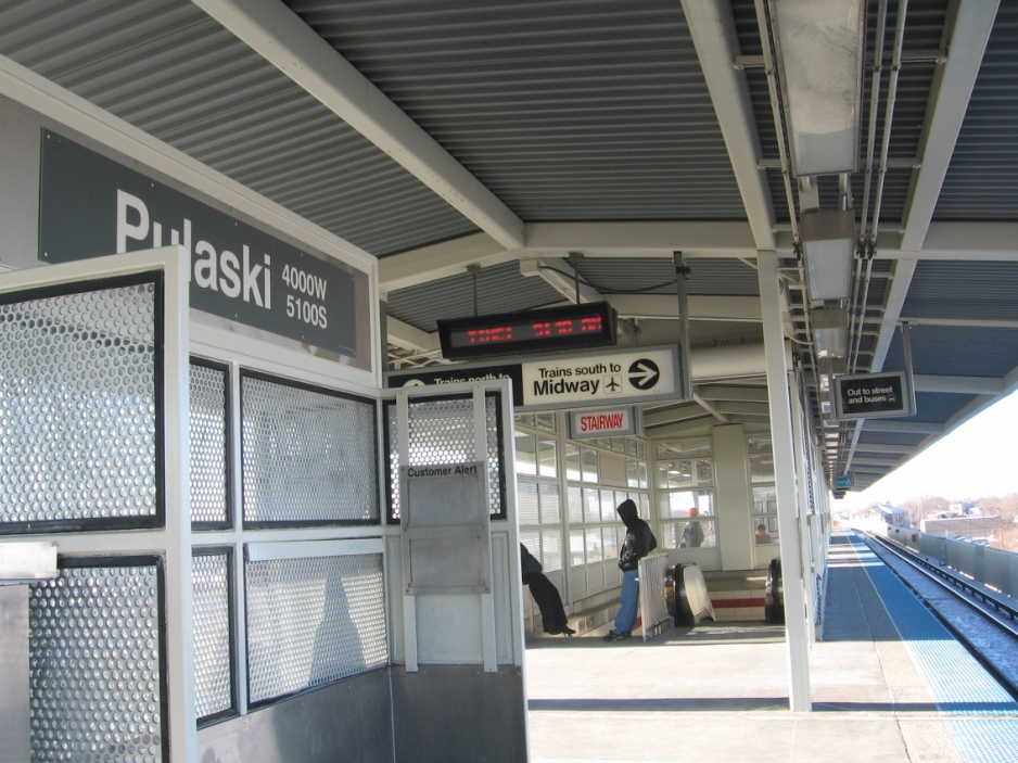 Photo by Norma Fernandez of the Pulaski CTA station.